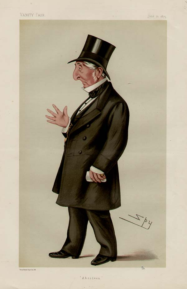 Statesmen No.307: Caricature of Mr John Farley Leith MP. (1808–1887). Caption reads: "Aberdeen"